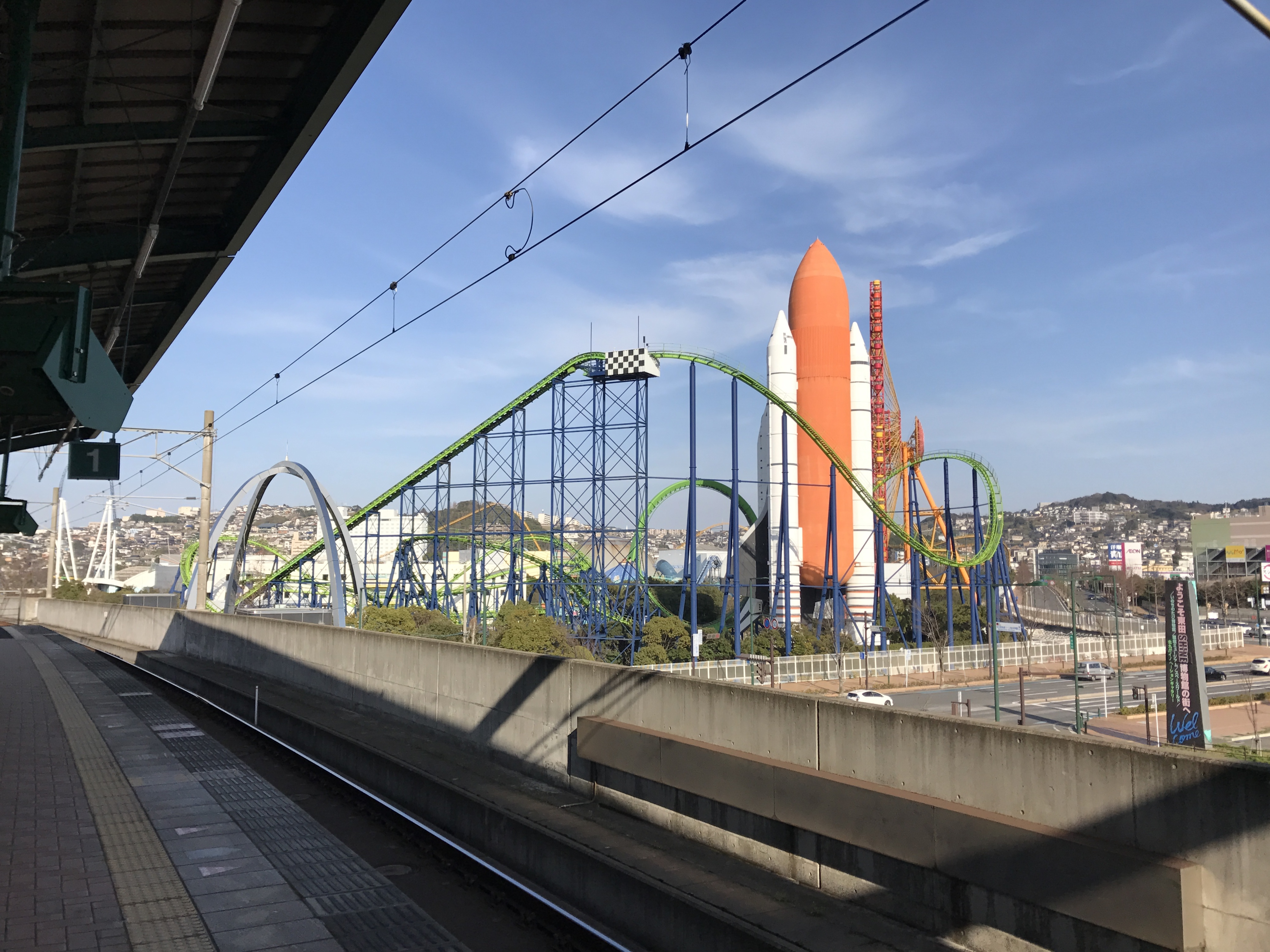 The Space World theme park seen from the platforms at Space World Station in Fukuoka Prefecture, Japan